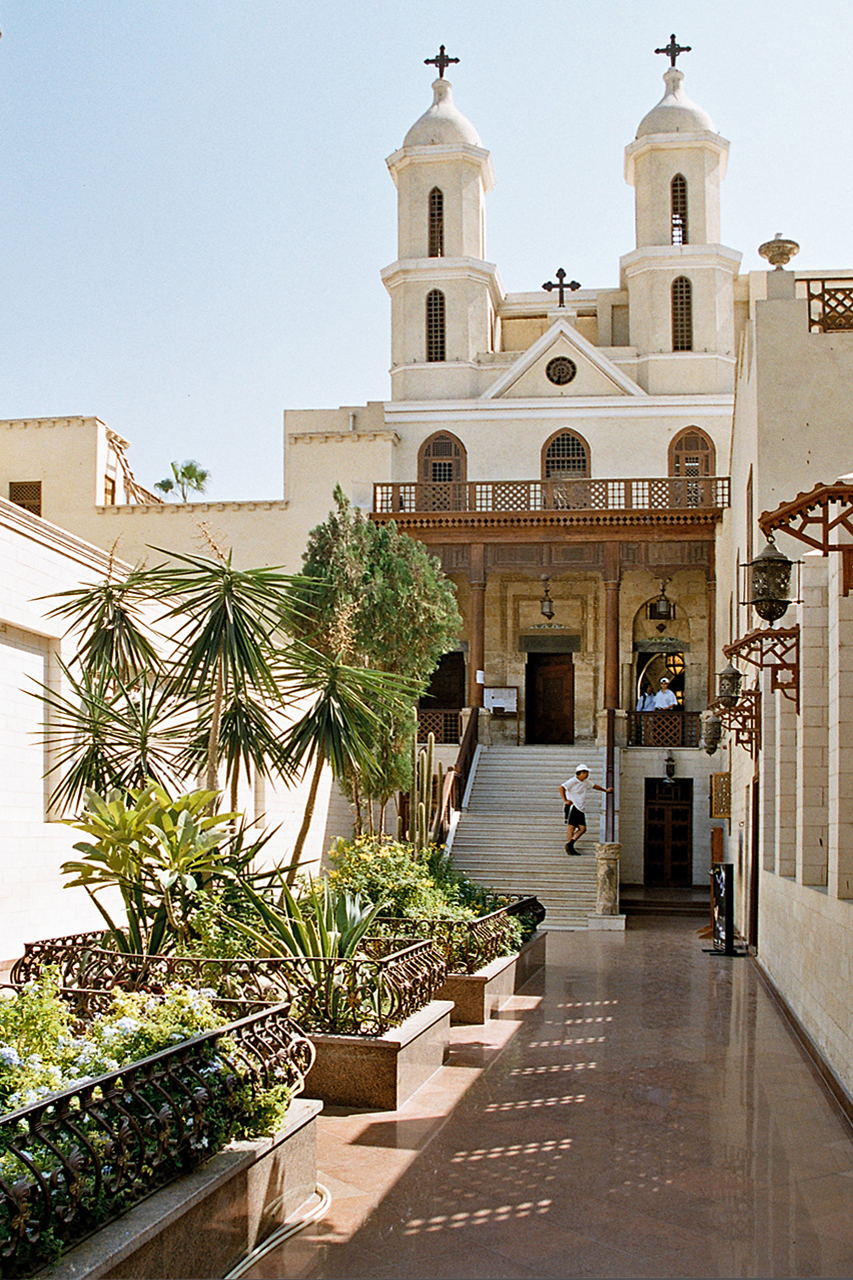 Saint Virgin Mary's Coptic Orthodox Church also known as the Hanging Church (El Muallaqa), Cairo. It is one of the oldest churches in Egypt.